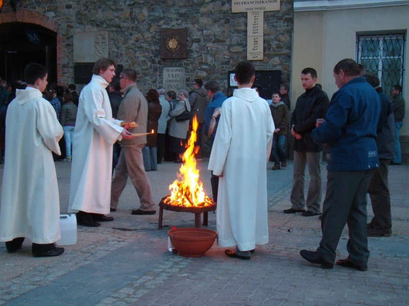 Easter Fire, Sanok